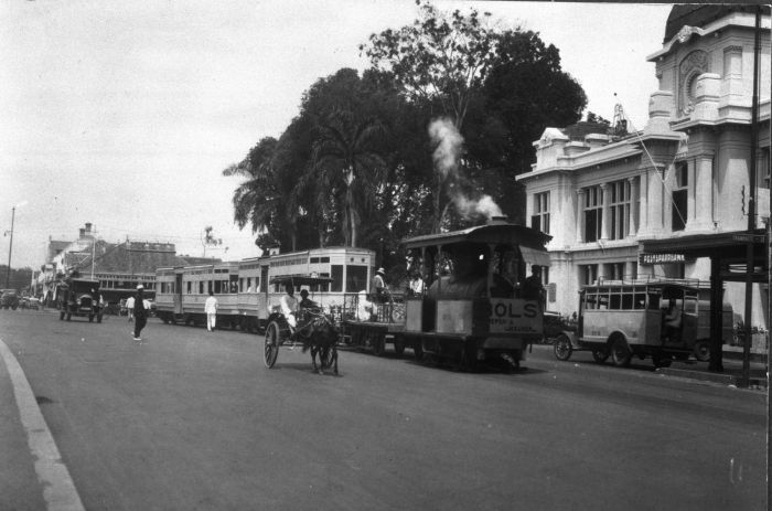 Molenvliet